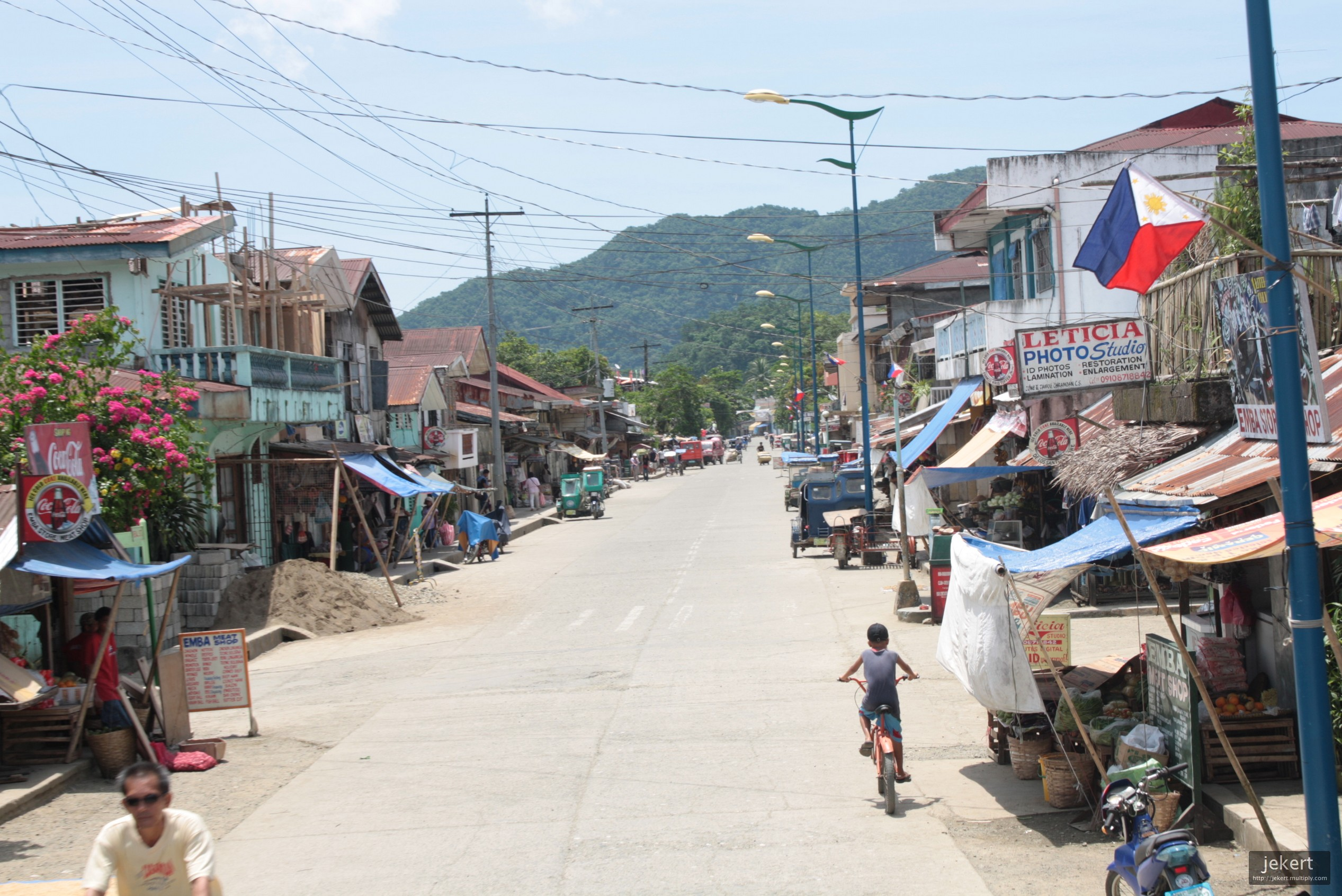 The simple and peaceful town of Caramoan! Camarines Sur, Philippines